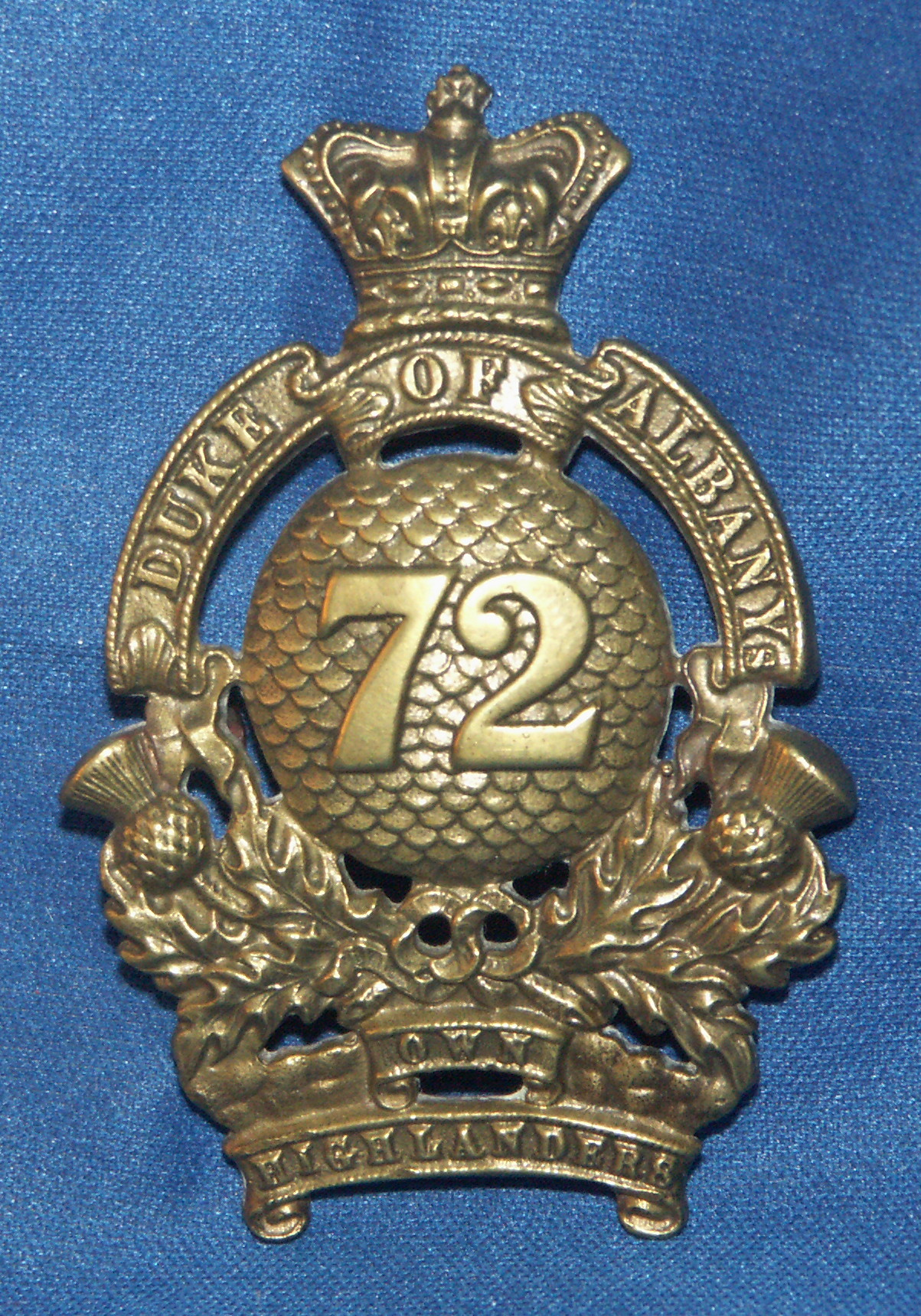 Badge of 72nd (or Duke of Albany's Own Highlanders) Regiment of Foot